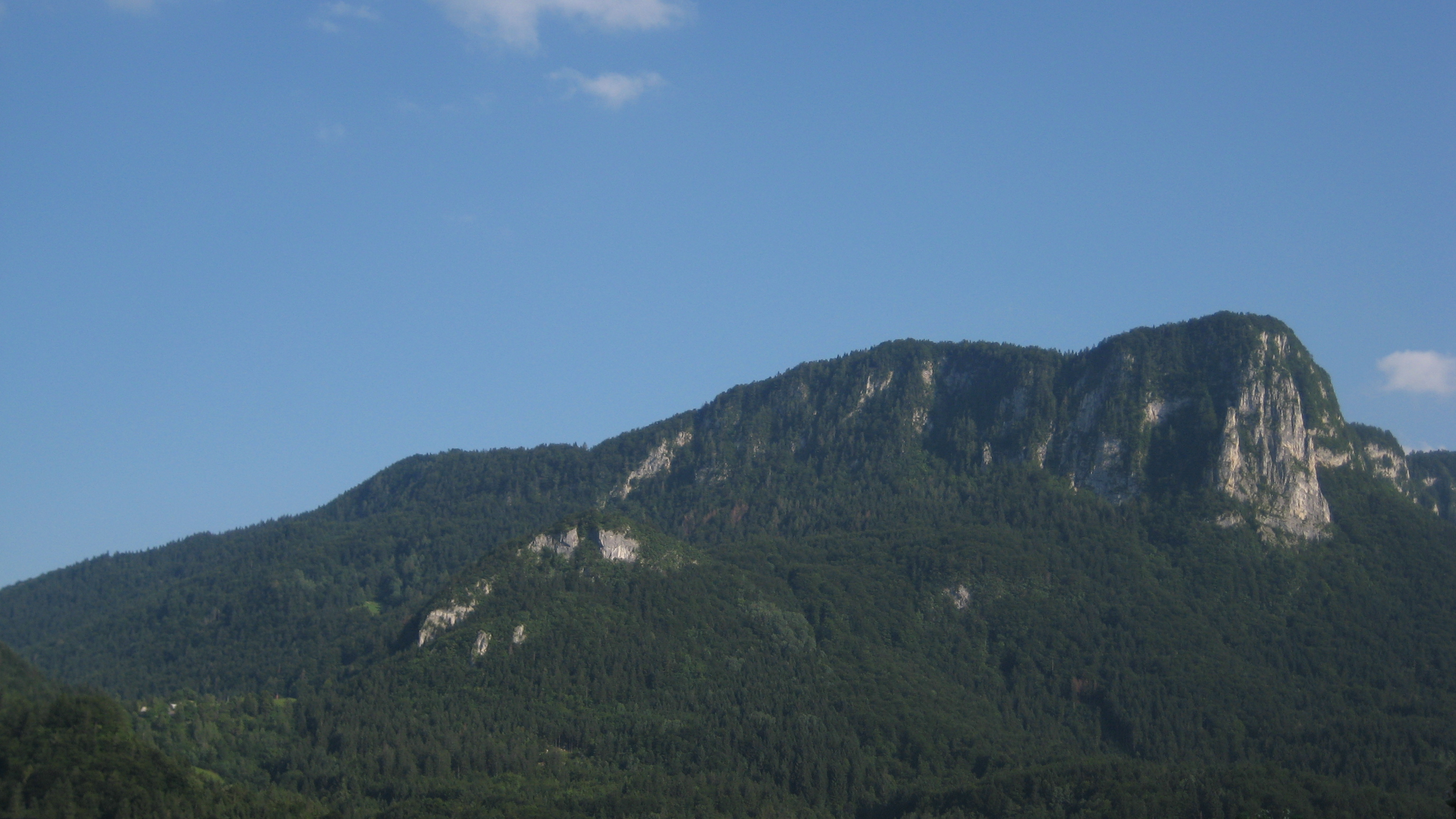 Jelovica Plateau with the rocky Hag's Tooth (Babji zob) visible at its right side. The villages of Gradišče and Kupljenik are also visible.